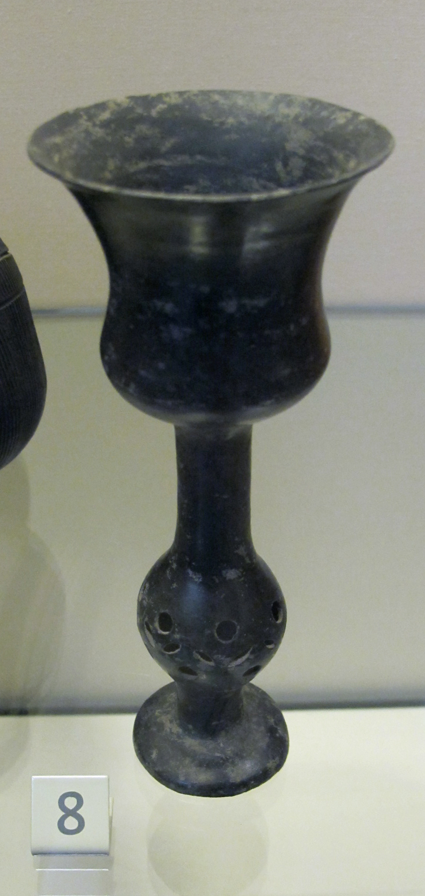 Cup on a reticulated tall foot. Burnished black earthenware, Longshan culture (2400–1800 BC), Neolithic period.